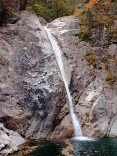 Biryong in Seorak-san national park, Korea; photographed myself.